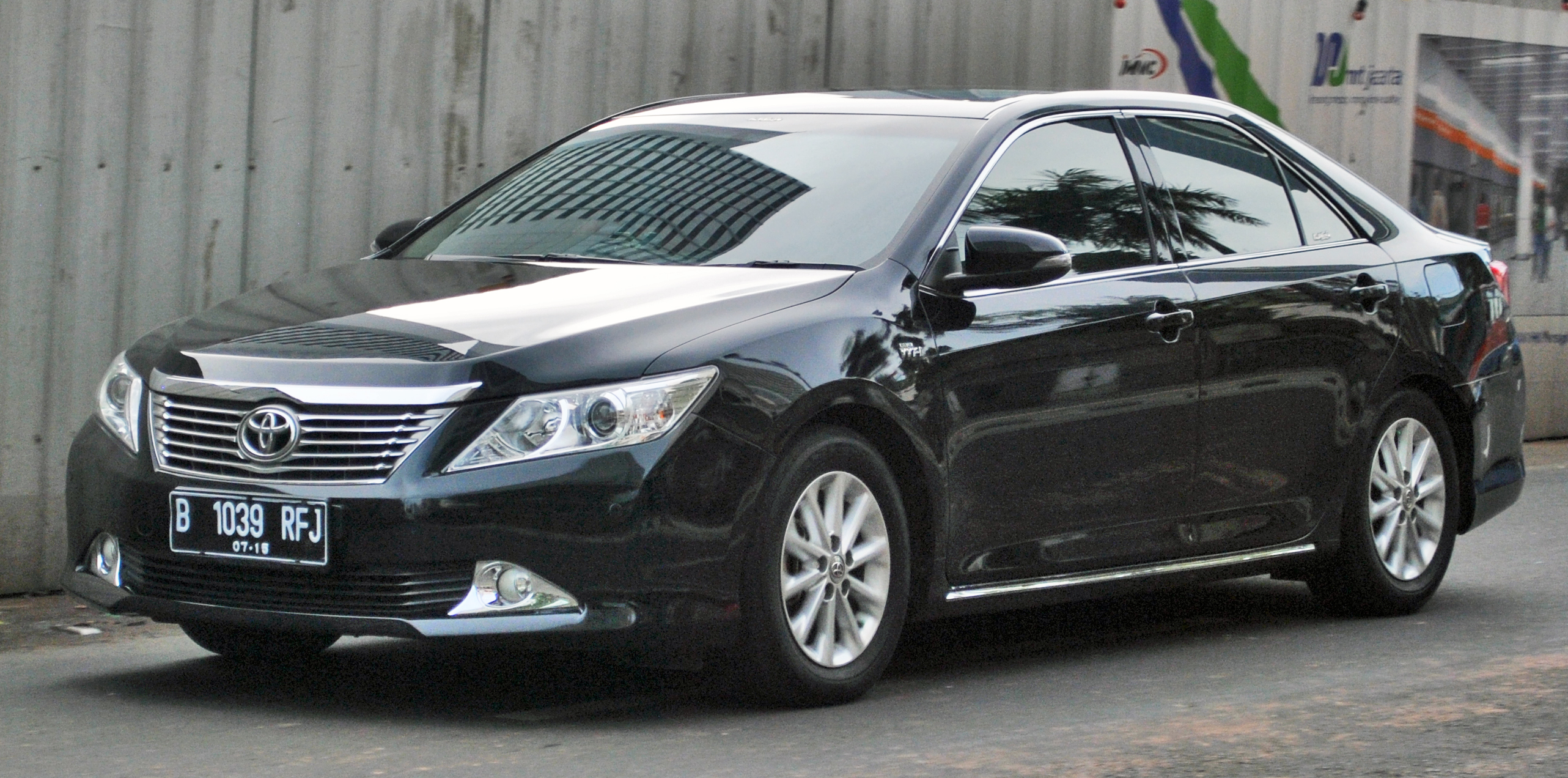 Front view of Toyota Camry 2.5 G (XV50) passing through MH Thamrin Road, Jakarta, Indonesia.